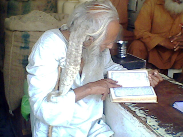 A Pakistani Punjabi Dervish